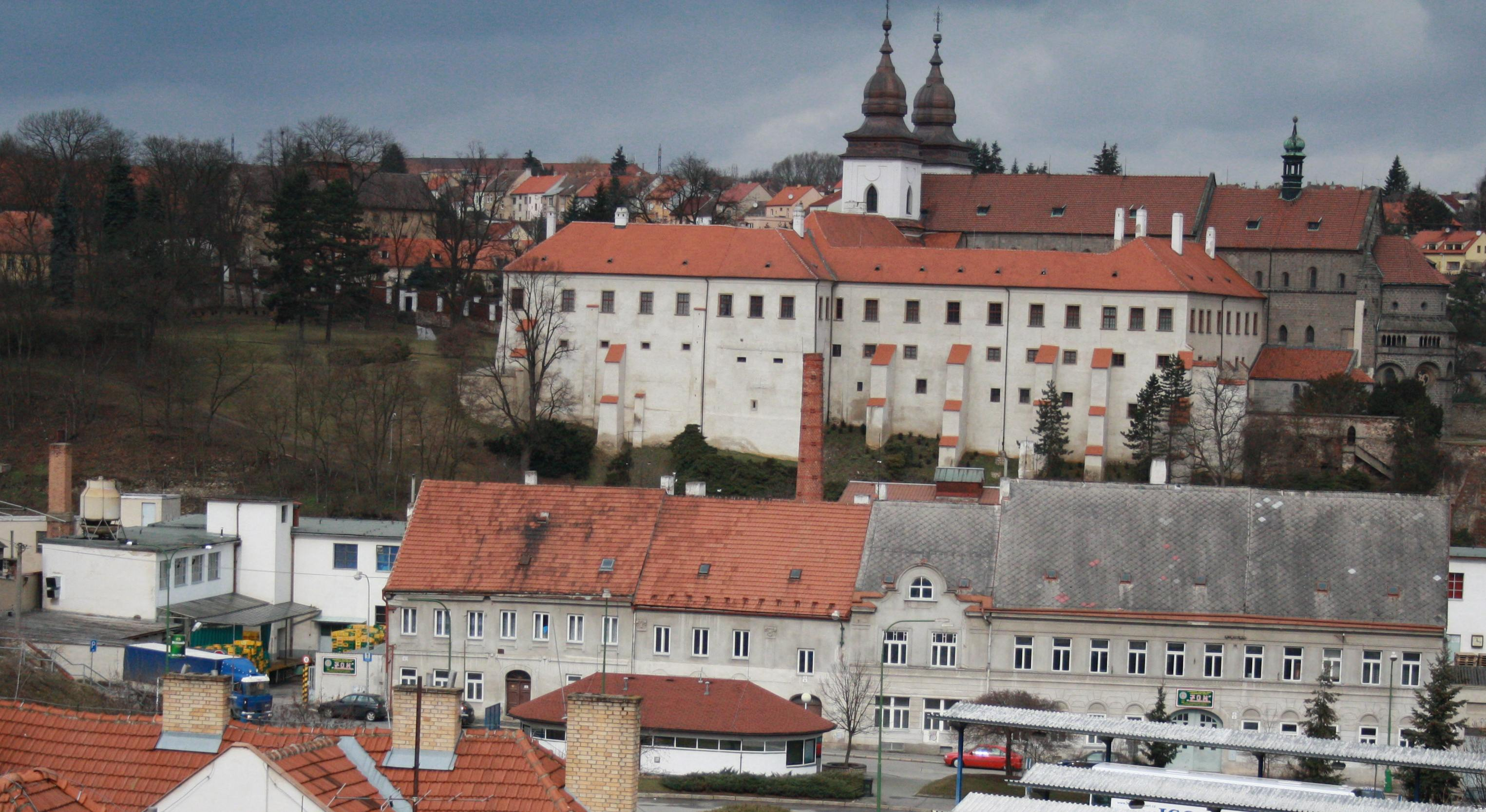 Panorama of ZON factory in Třebíč, Czech Republic.